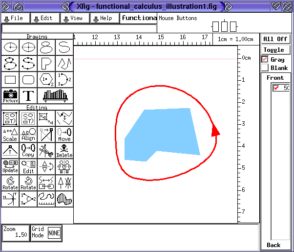 A screenshot of the open source vector graphics editor Xfig